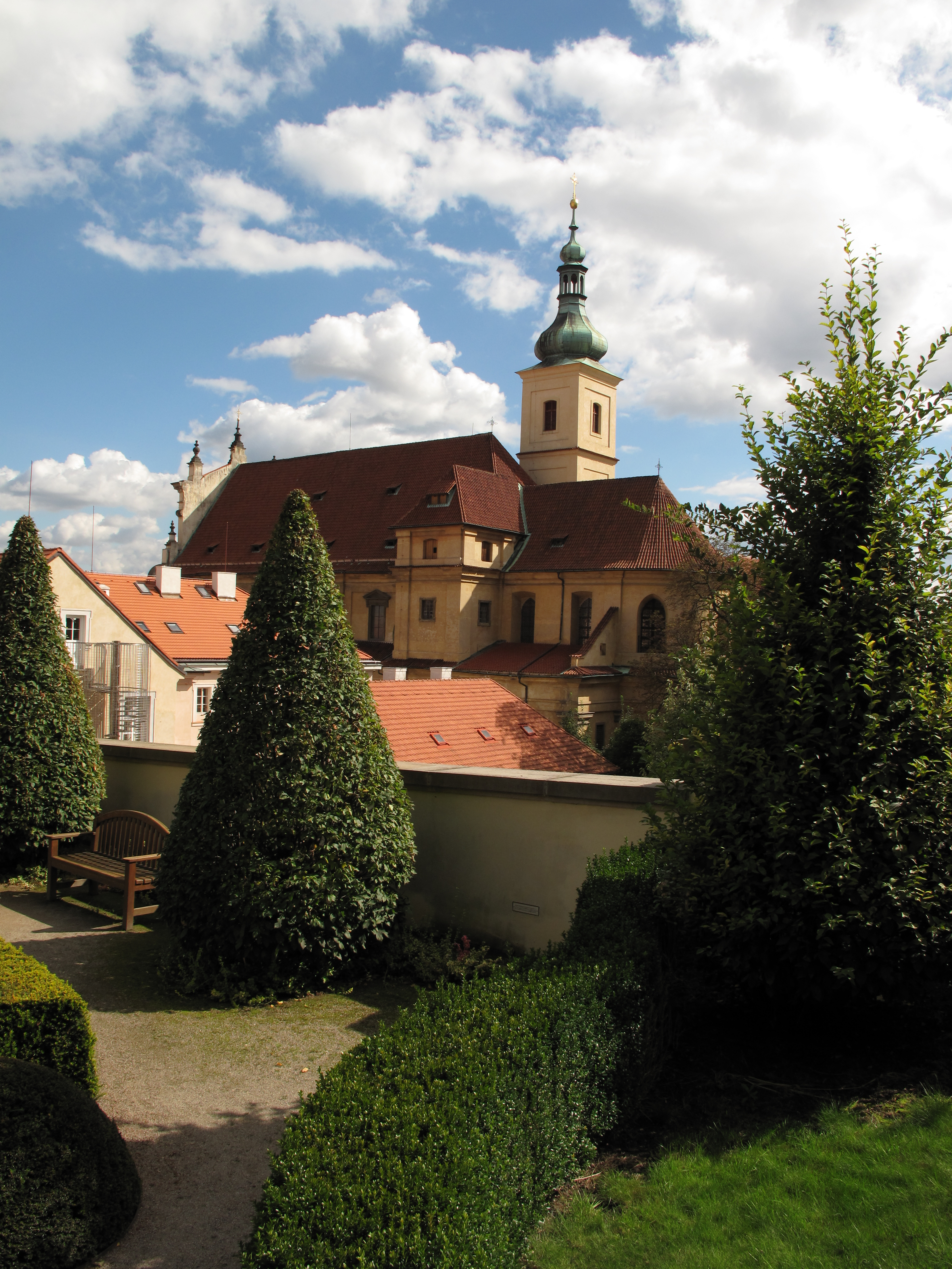 The Church of Our Lady Victorious from the Vrtba Garden, Prague, Czech Republic.